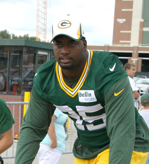 Datone Jones, Green Bay Packers Defensive End at training camp, August 13, 2013.